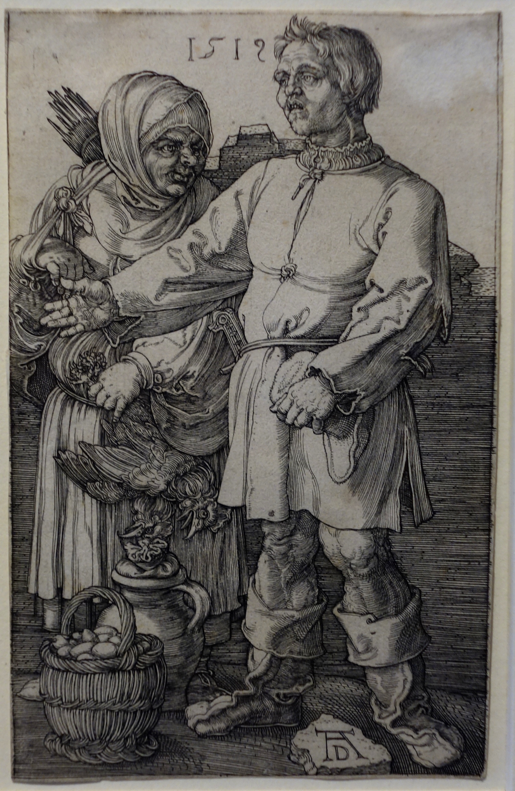 Exhibit in the Fitchburg Art Museum, Fitchburg, Massachusetts, USA. This artwork is old enough so that it is in the public domain.